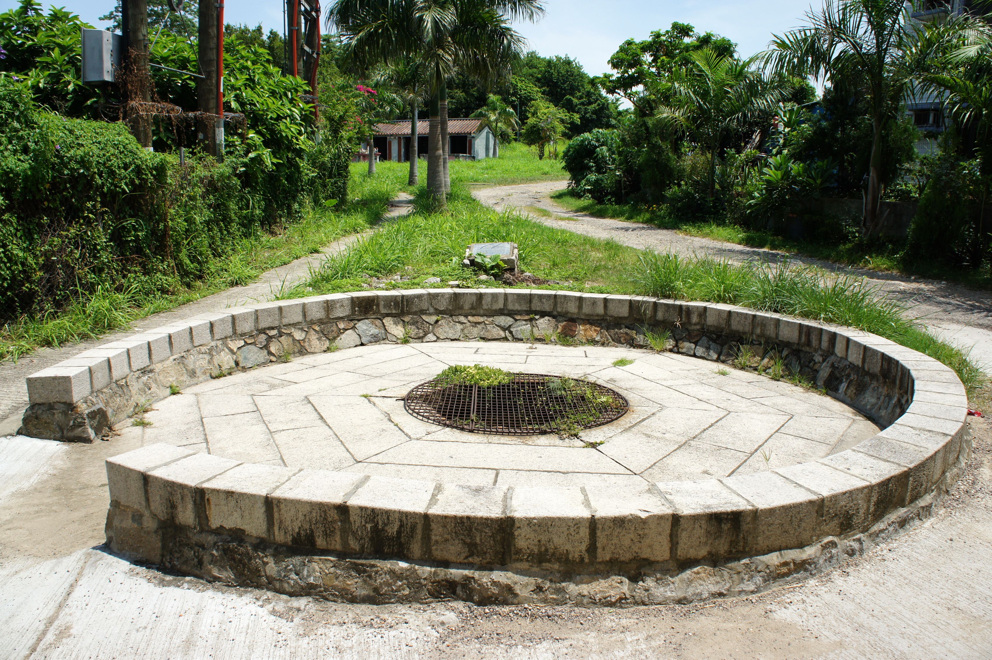 An old well built by the villagers of Hang Tau Tsuen over 200 years ago. The well was once the main source of drinking water for the Hang Tau Tsuen and Sheung Cheung Wai.中文（香港）: 香港元朗屏山文物徑其中一項古蹟・屏山古井。